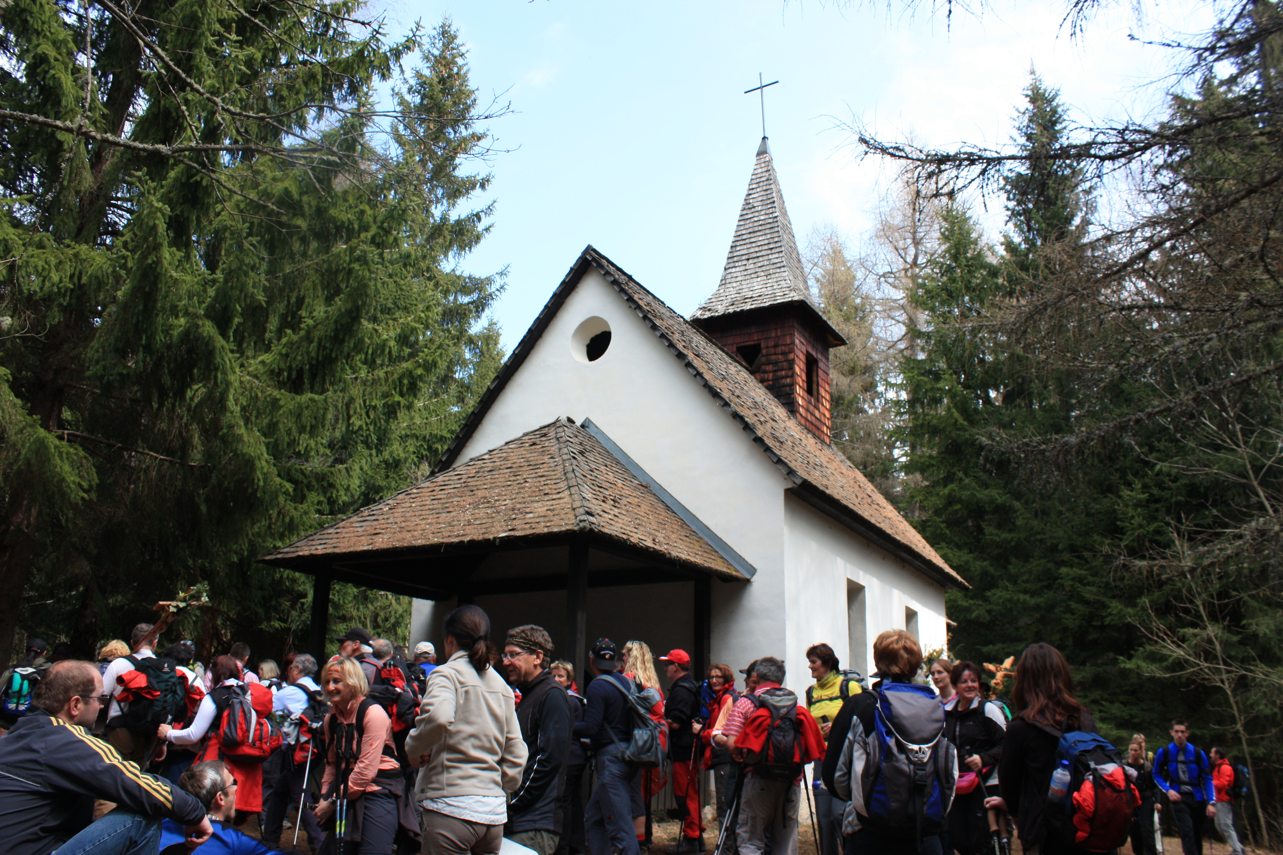 Church Locality: Veitsberg Community: Liebenfels